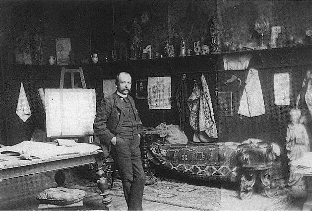 Wilhelm Friedrich Laur, Architect